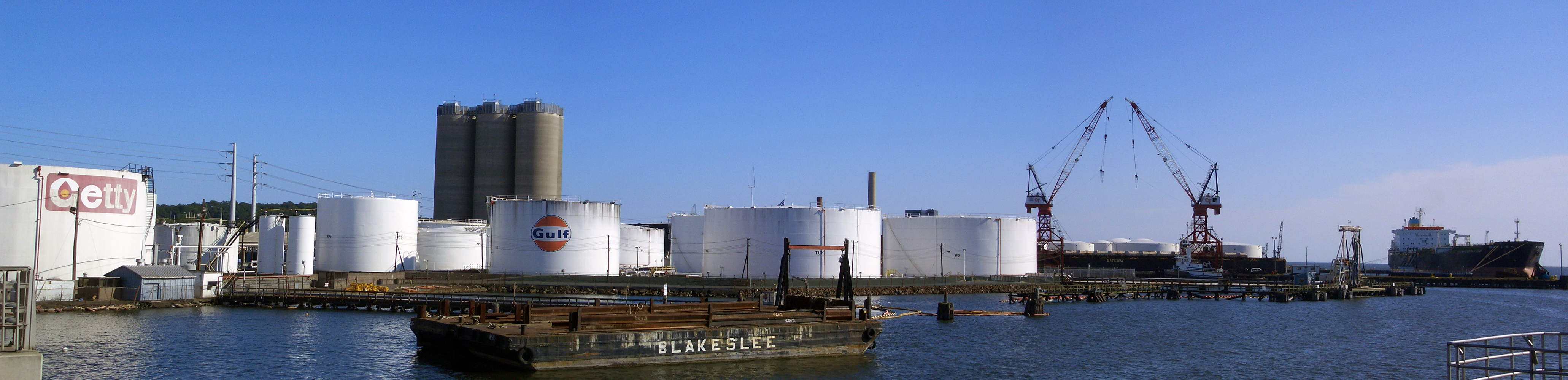 Northeast Side of New Haven Harbor - Panorama from Rt1